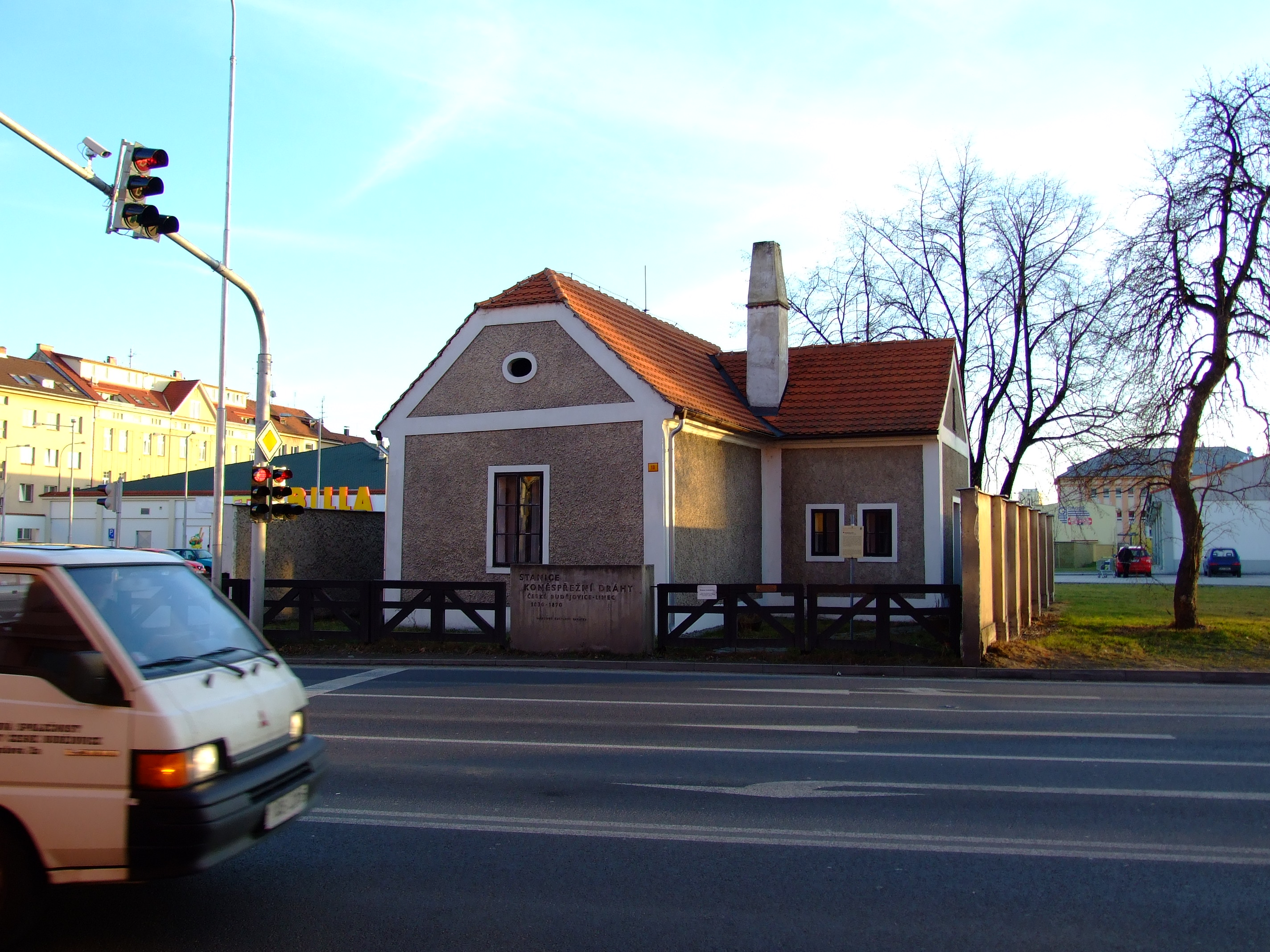 Horse-drawn Railway Museum in Mánesova St, České Budějovice, Czech Republic